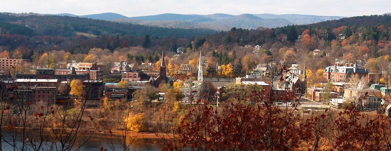 Brattleboro, Vermont, with the Connecticut River in the foreground.